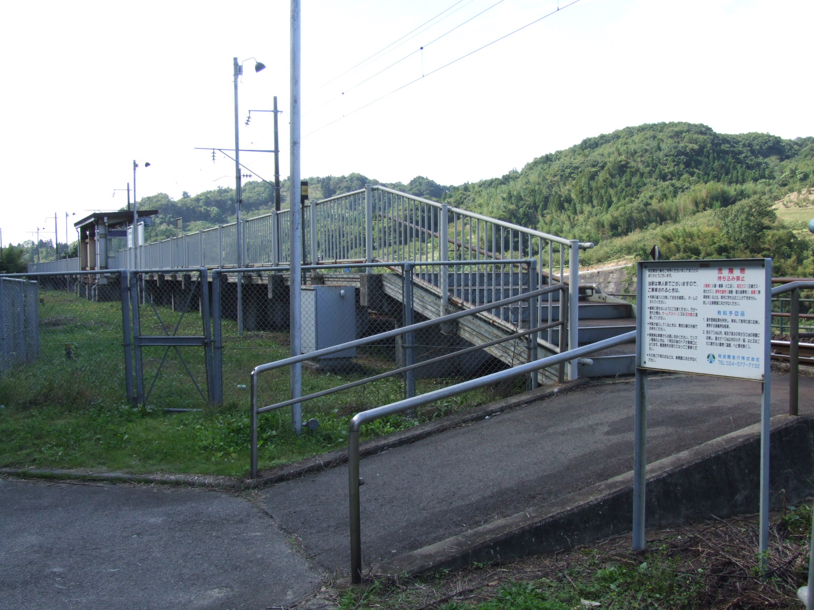 Kabuto Station of Abukuma Kyuko, in Date, Fukushima, Japan)